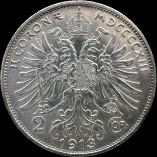 2 coronae, 1913 (Austria) - reverse